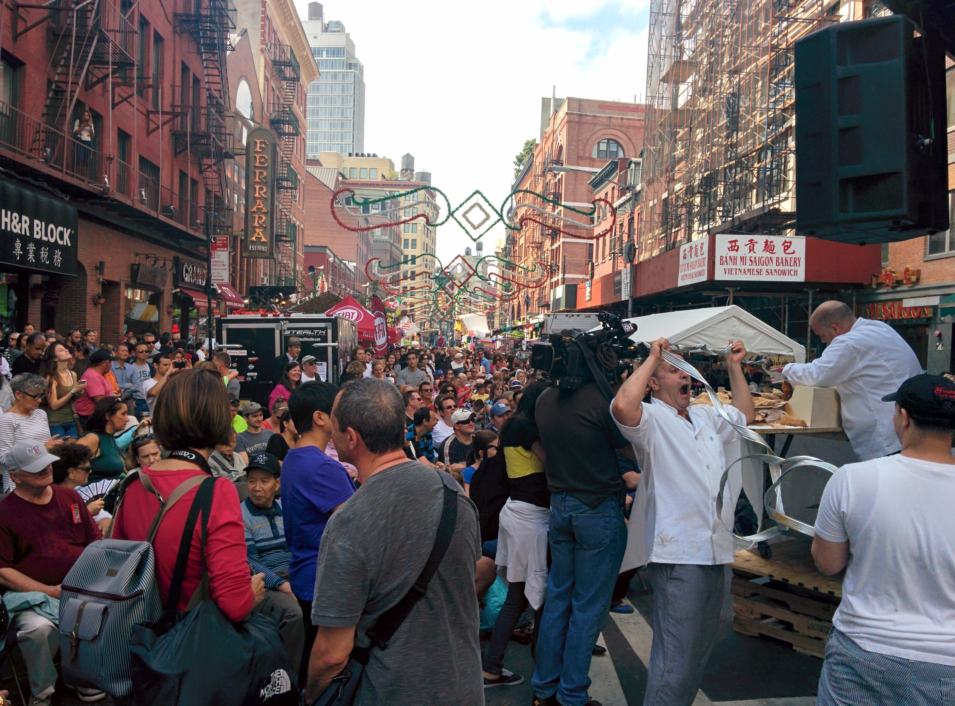 Looking west down Grand Street in Little Italy during the San Gennaro Festival in 2014. To the right the Little Italy Bakery can be seen constructing what became the world's largest cannoli.